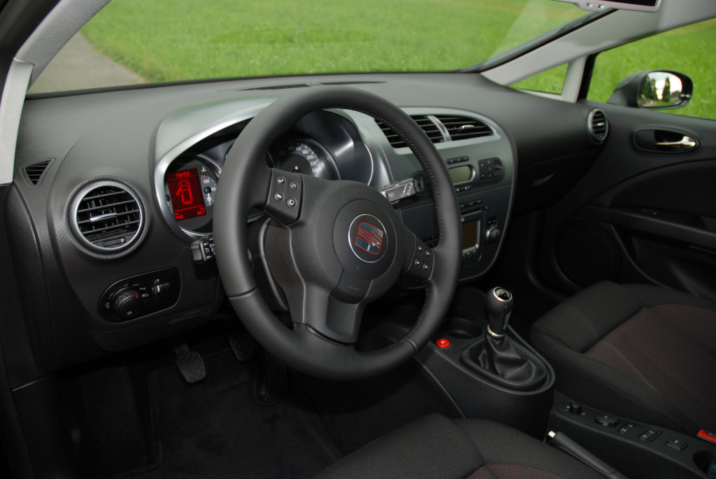 Cockpit of a SEAT León 1P